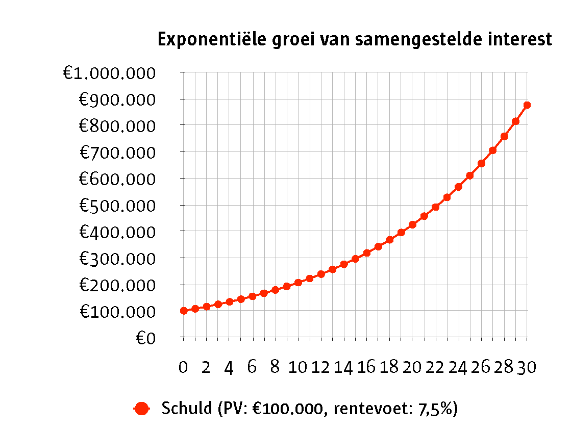 Exponential growth of compound interest.